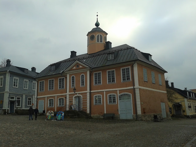 Porvoo town halls